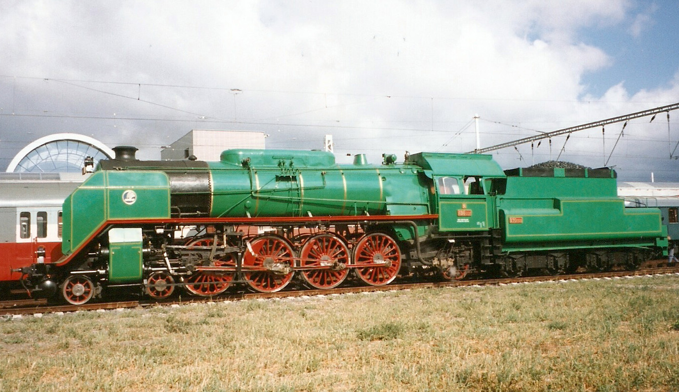 486.007 at the railway station Bratislava Petržalka